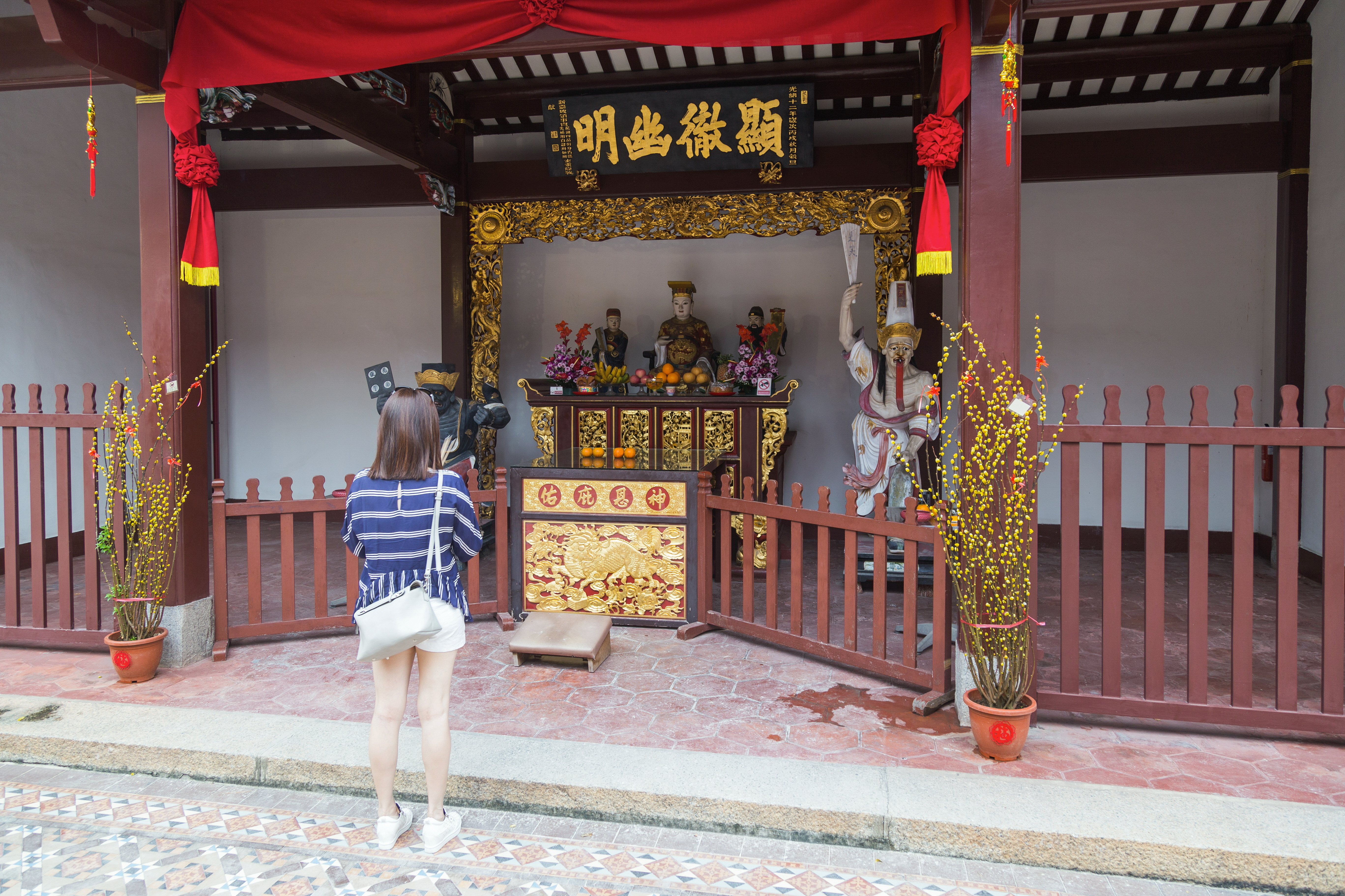 Thian Hock Keng - Chinese temple of Mazu (a Chinese sea goddess). Telok Ayer Street. Chinatown, Central Region, Singapore.